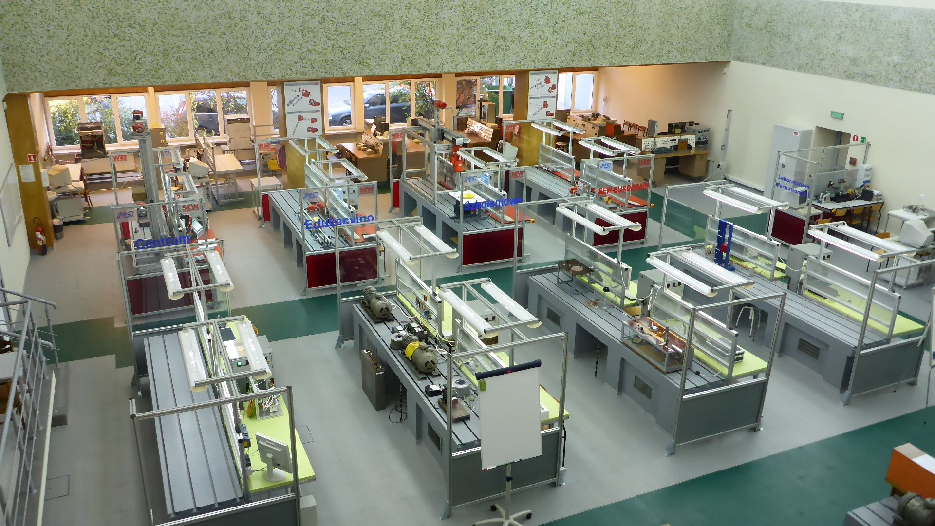 Laboratory of IMSI Institute